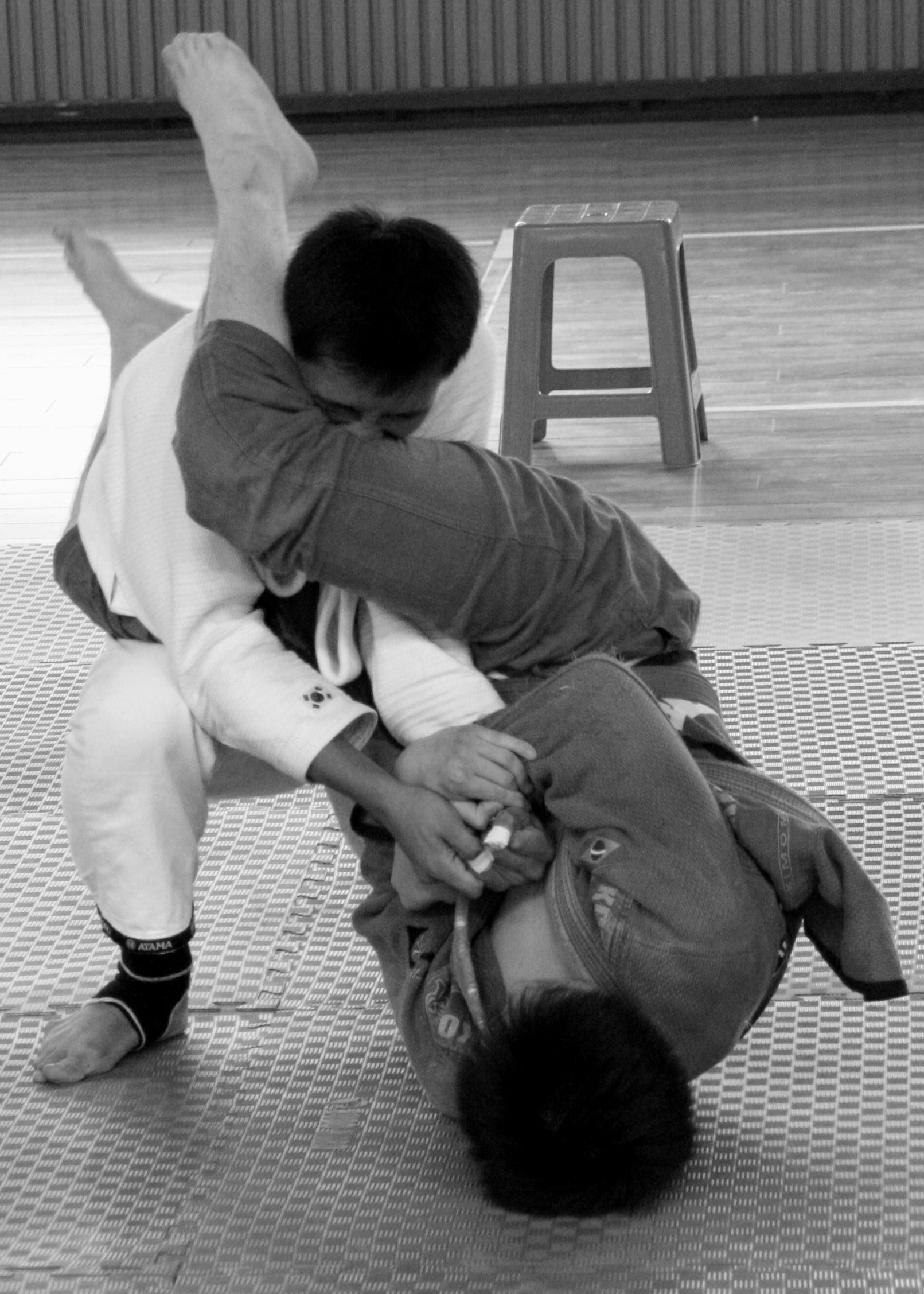 An in-guard armbar attempt.